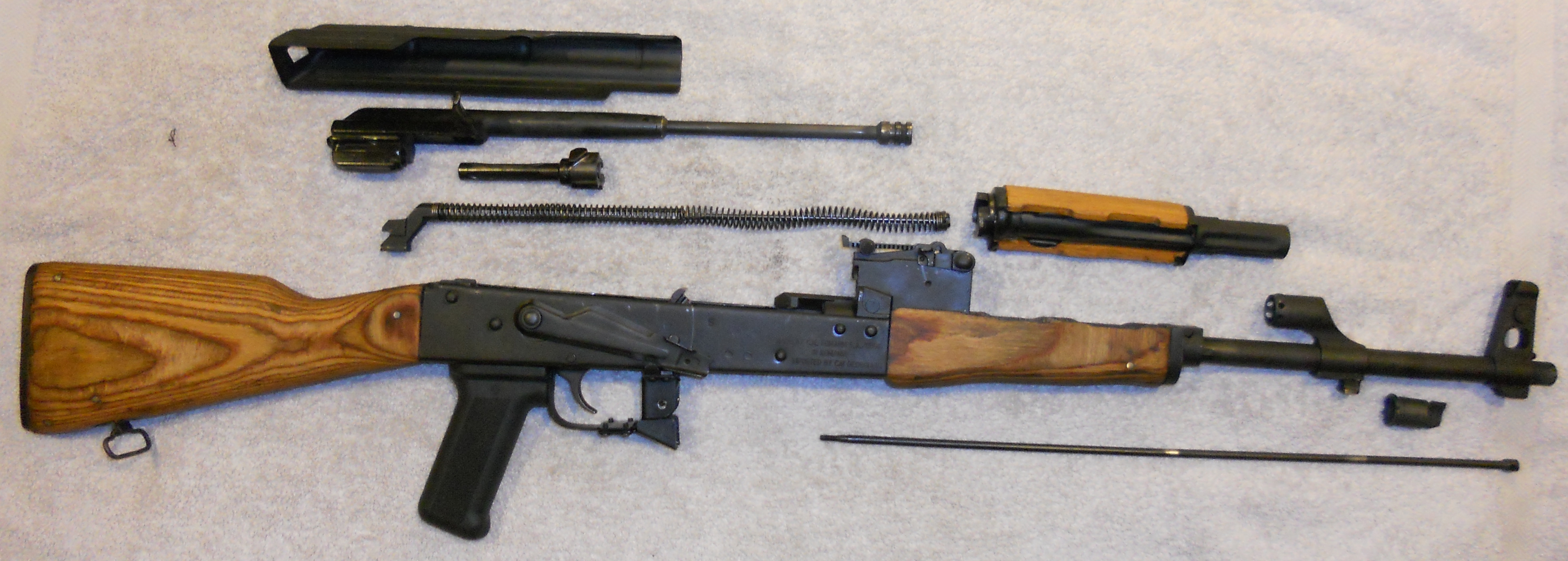 Field Stripped California Legal Century Arms International GP WASR-10/63 Romanian AKM (AK-47)